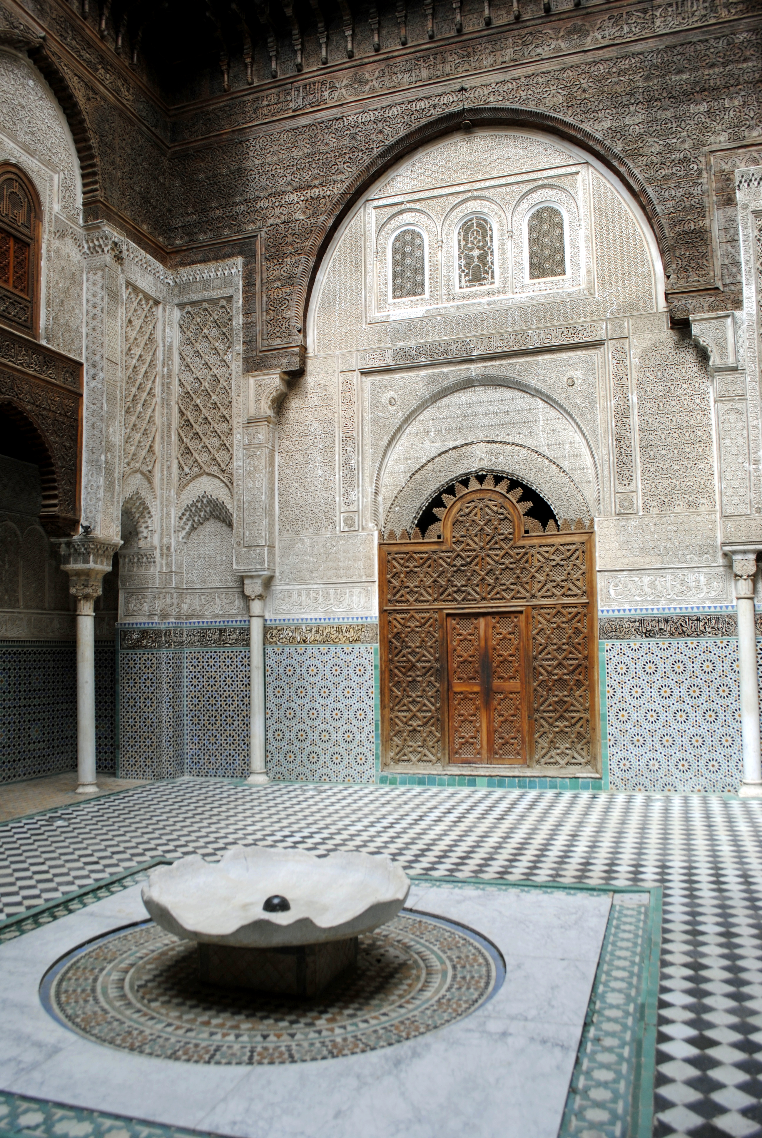 It was built by the Marinid sultan Uthman II Abu Said in 1323-1325.